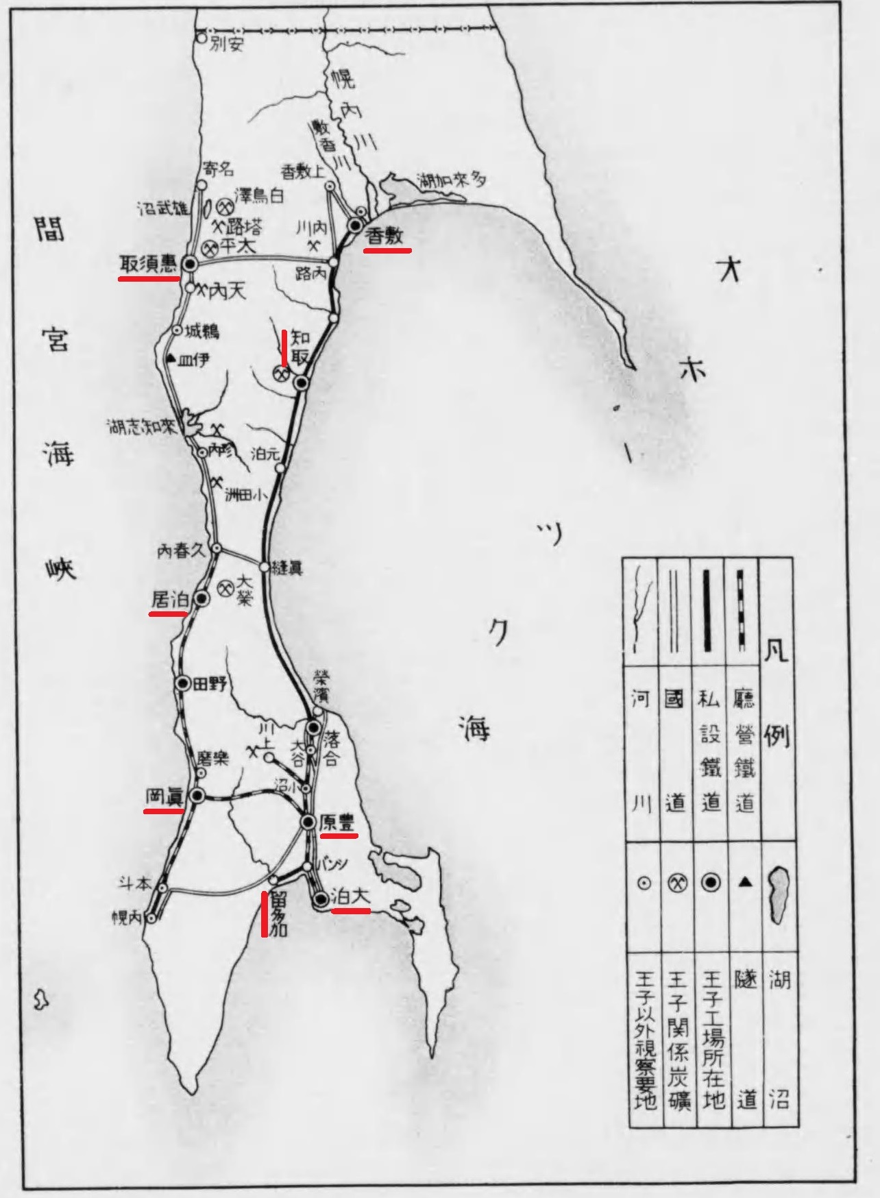 RaceCourse Map of Karafuto